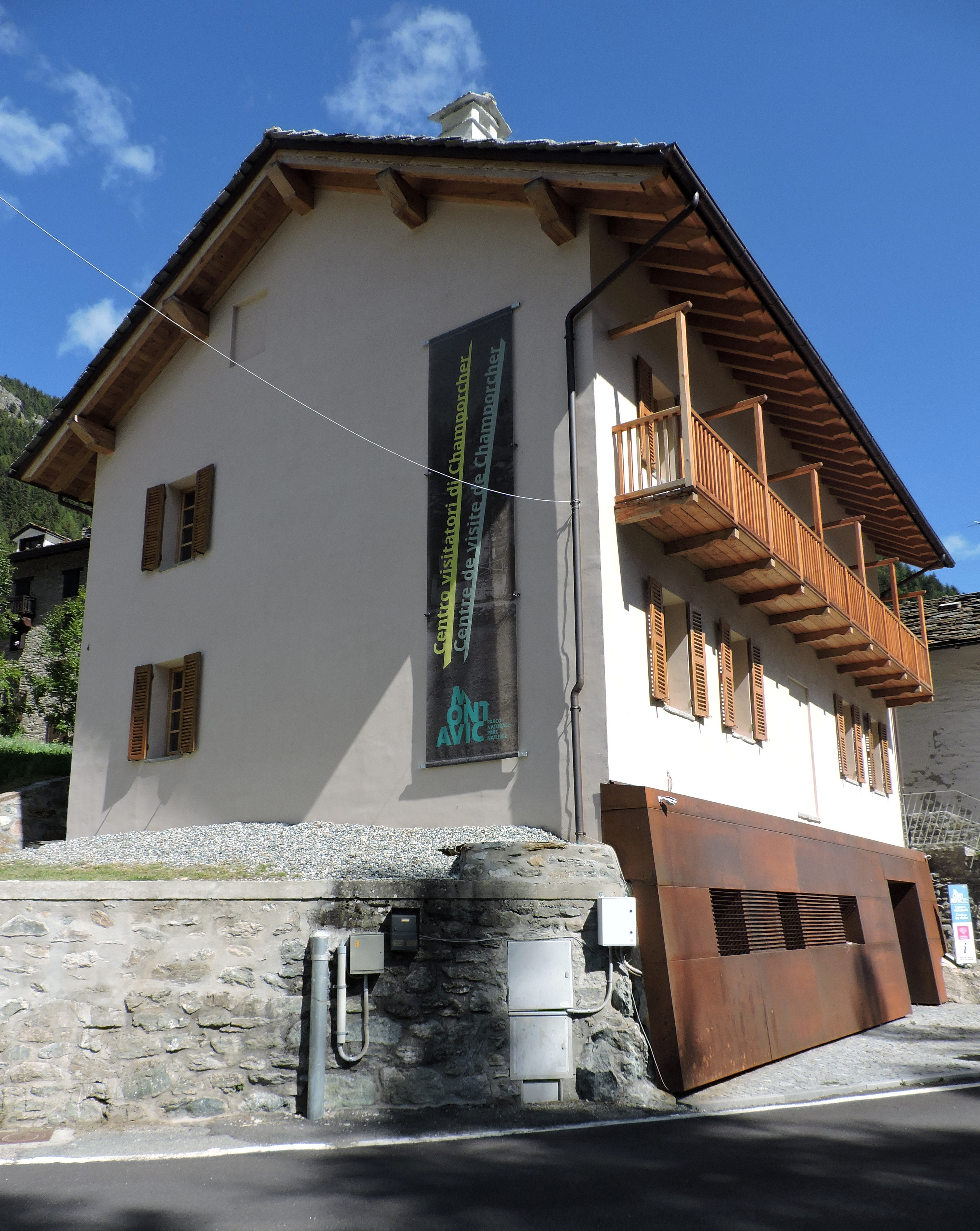 Natural park of Mont Avic (AO, Italy) visitor's centre in Champocher